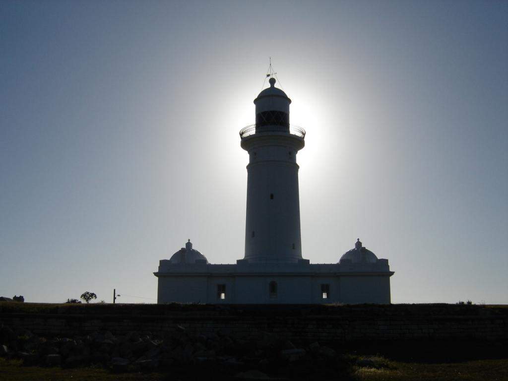 Macquarie Lighthouse silhouetted by the late afternoon sun.